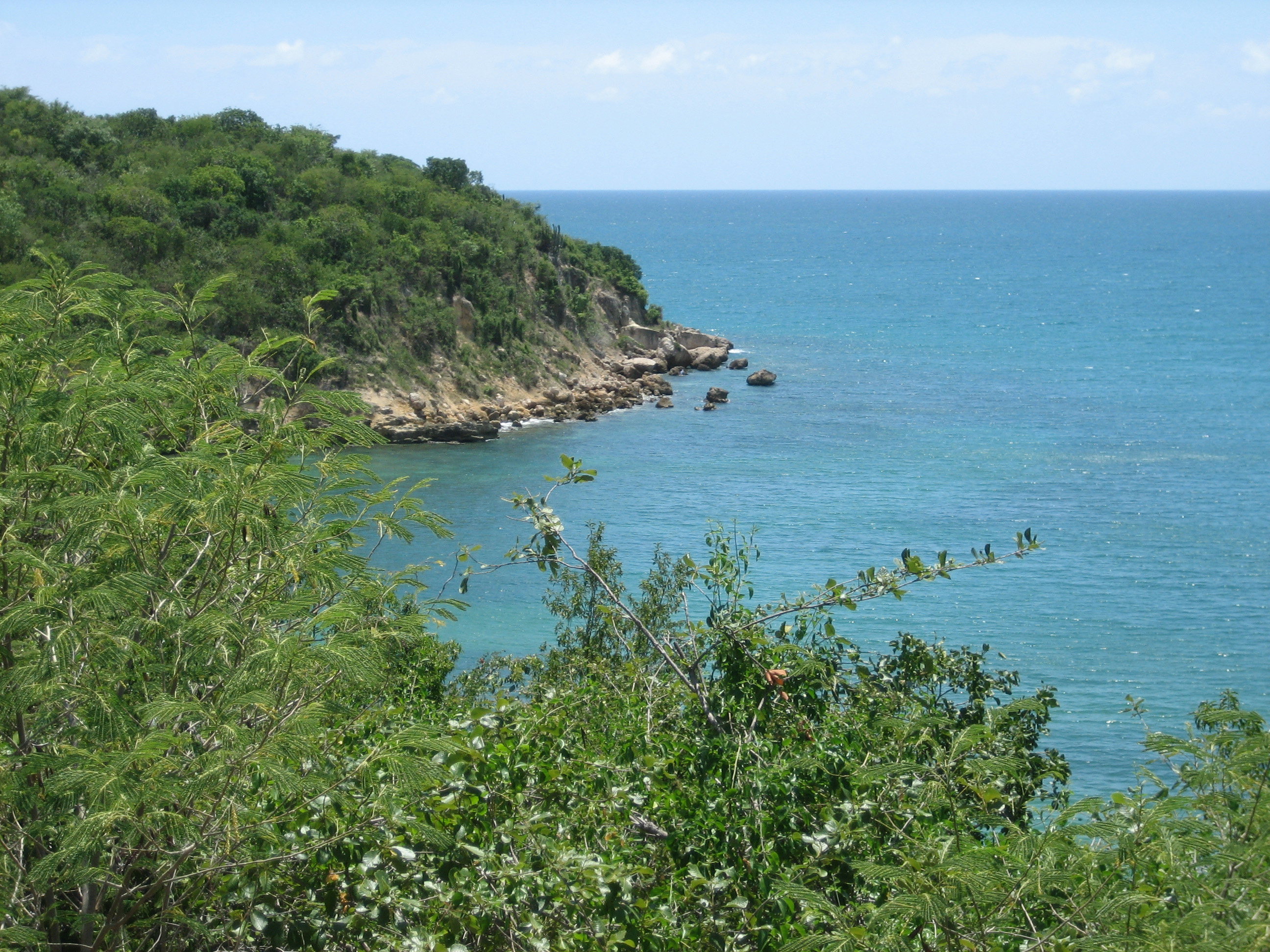 Situated in the south-west of Puerto Rico, the (UNESCO) Guanica Biosphere Reserve comprises (4000 hectares of) coastal areas with several mangrove cays as well as subtropical dry forest.